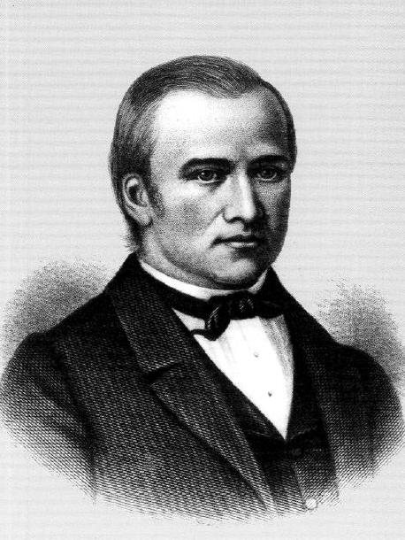 Newel K. Whitney engraving.